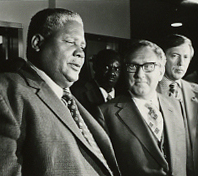 The photo contact sheet, identified as A9587 by the White House Photographic Office (WHPO), is housed at the Gerald R. Ford Presidential Library, a branch of the National Archives and Records Administration (NARA). This file is a 200 dpi photo contact sheet having images from roll of film A9587 of the August 9, 1974 - January 20, 1977 Gerald R. Ford White House Photographic Office Series A0001-A9999 and B0001-B2886 photographs. The date on the photo contact sheet is the date the roll of film was processed, not necessarily the date the photographs were taken. See table below for additional details.